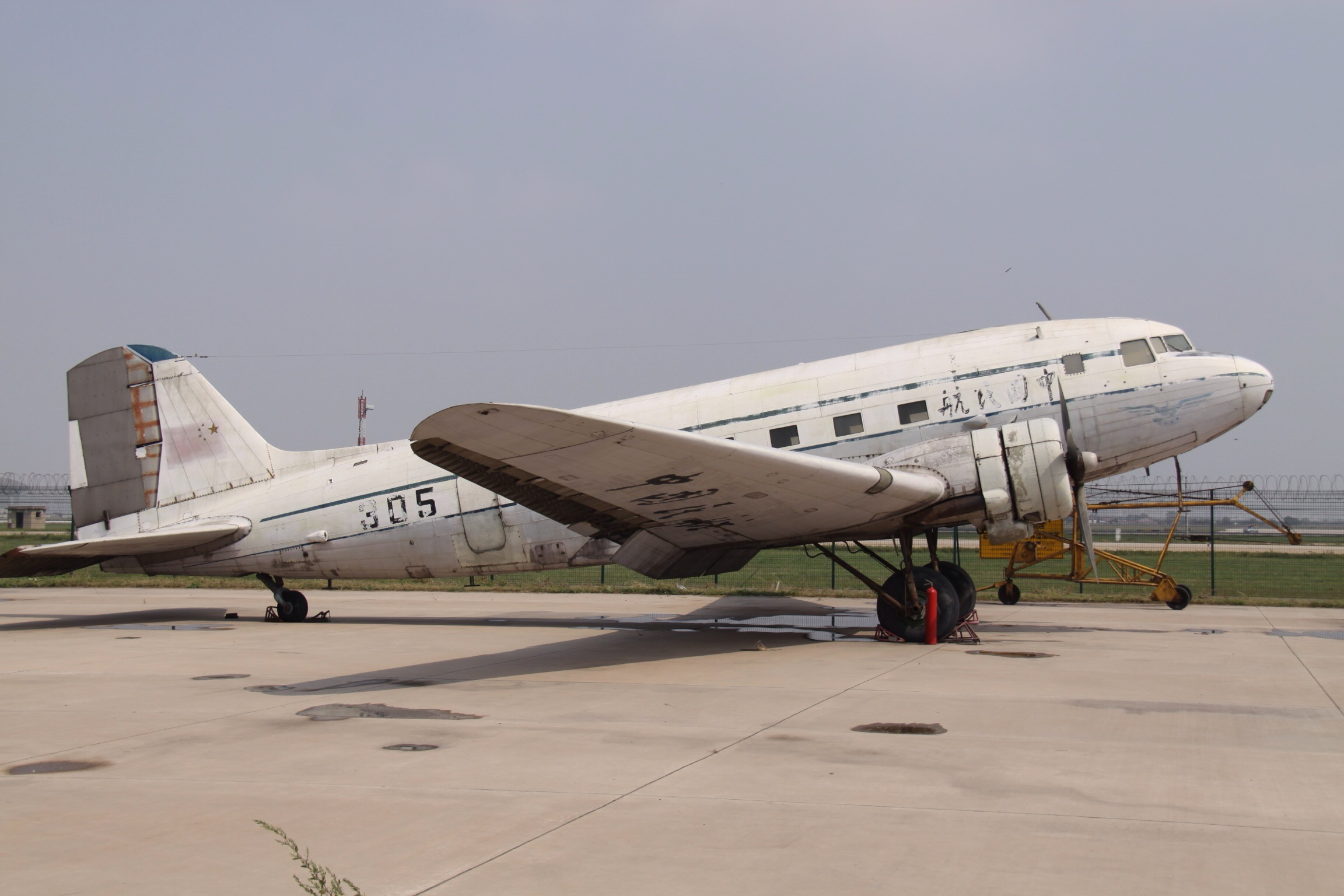 At Tianjin Binhai International